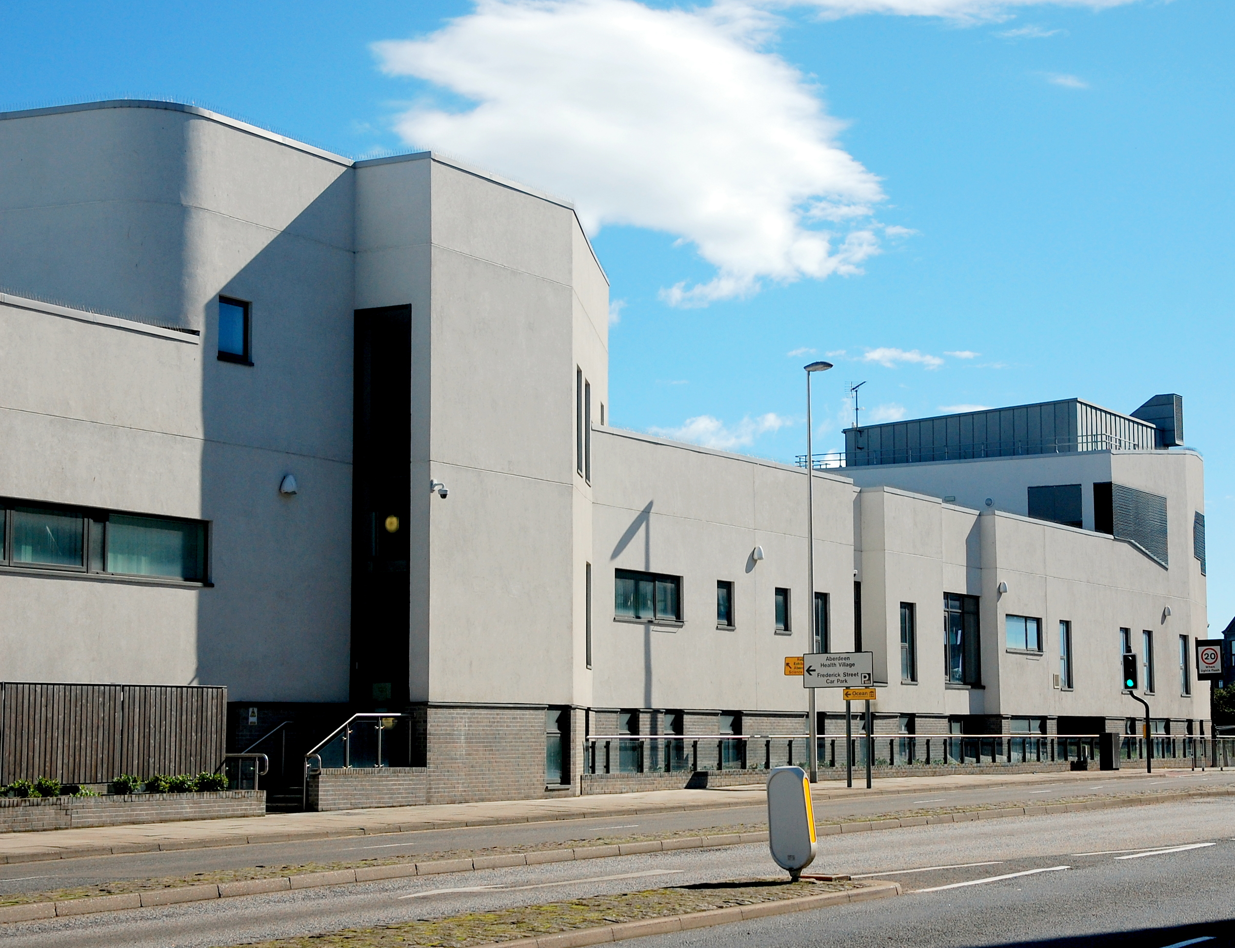 Aberdeen Health Village, East North Street, Aberdeen